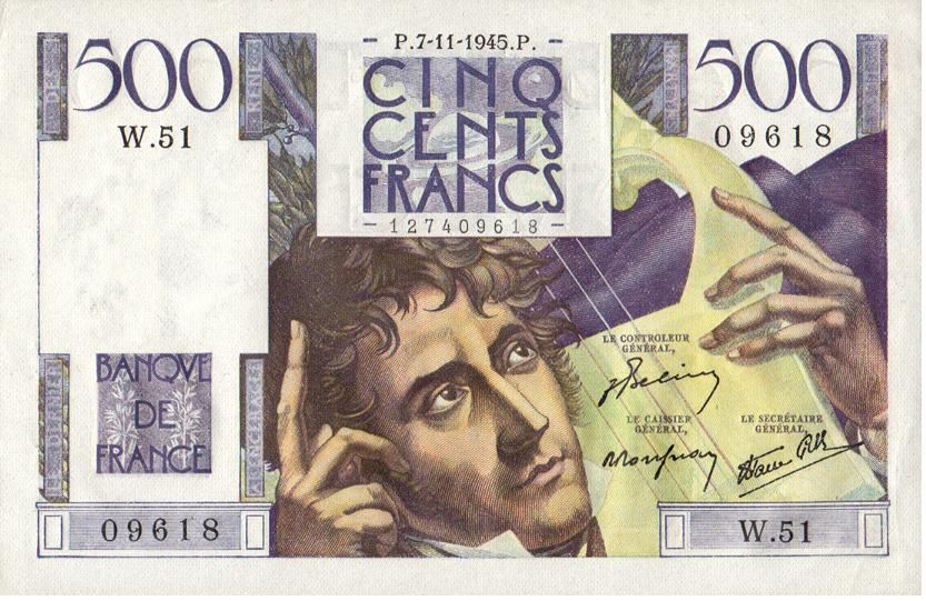 France 500 francs Chateaubriand 01